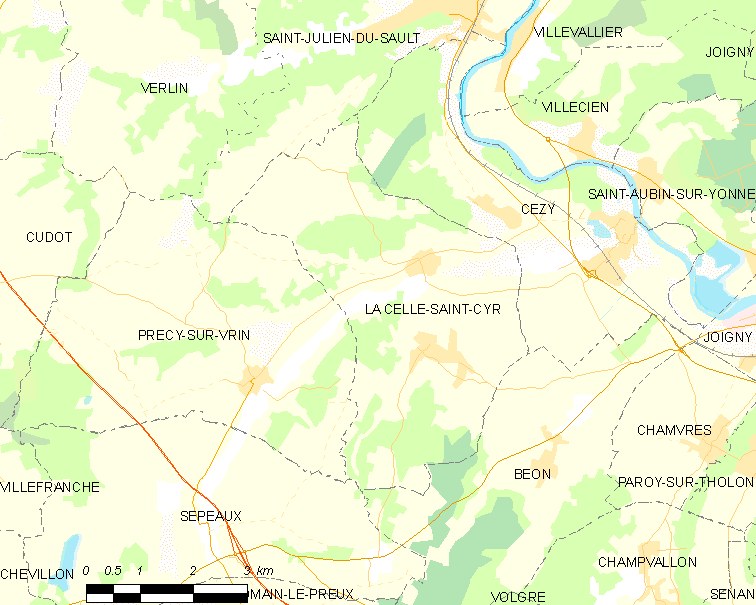 Map of French municipality La Celle-Saint-Cyr